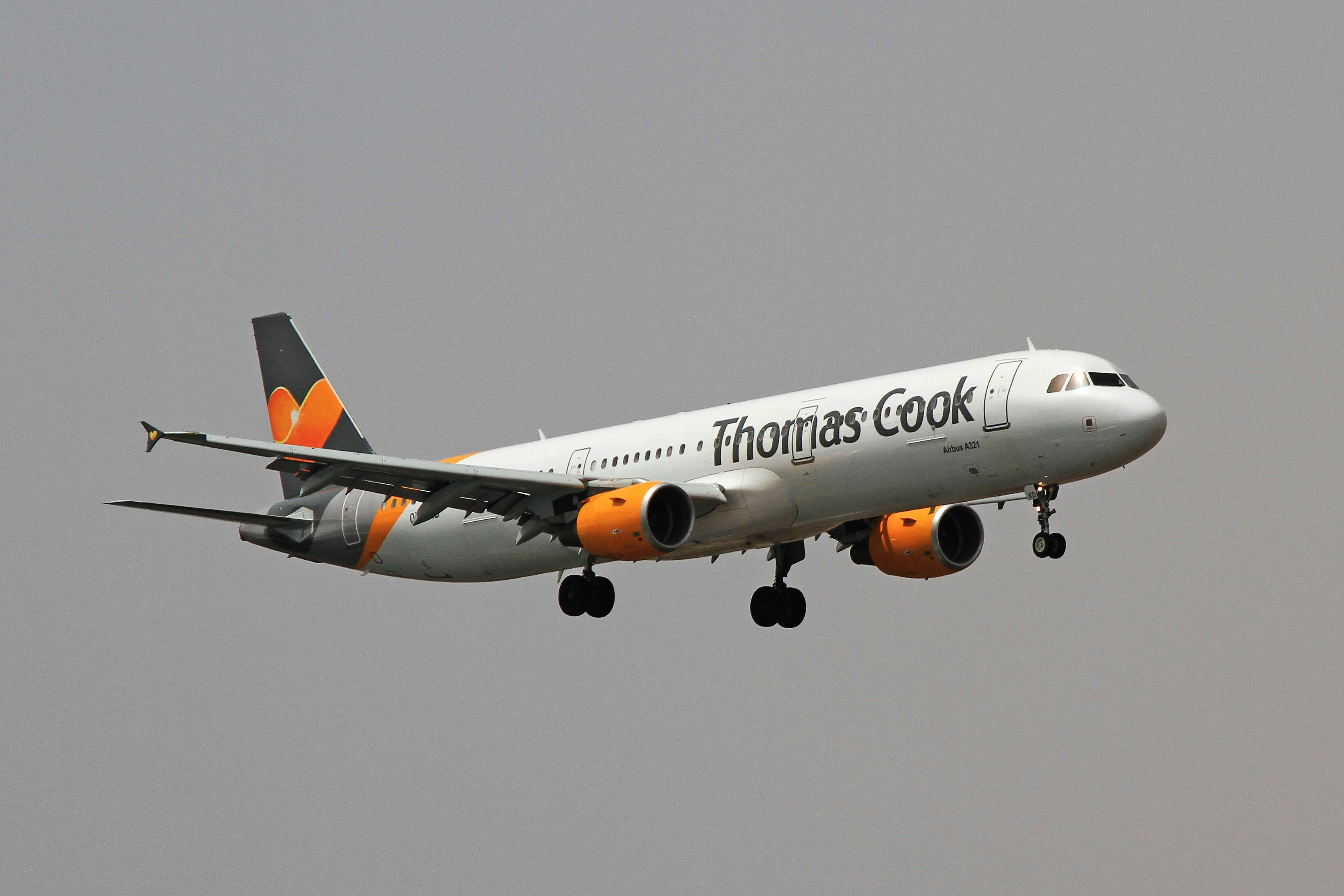 OY-VKD A321 Thomas Cook Lanzarote 31-03-2017